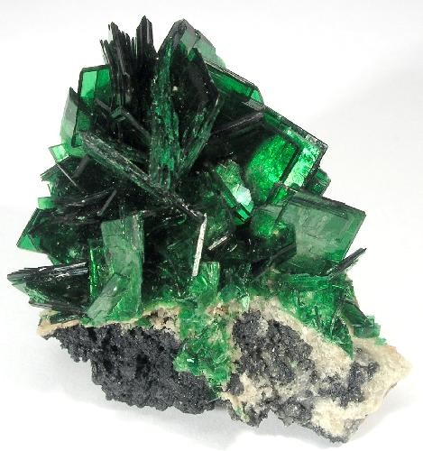 Torbernite Locality: Mashamba West Mine, Kolwezi, Western area, Katanga Copper Crescent, Katanga (Shaba), Democratic Republic of Congo (Zaïre) (Locality at ) Size: 3.2 x 2.5 x 1.4 cm. There is hardly anything with the sheer visual impact of a great Torbernite. The deep green color and the superb luster of the blades, which range up to an impressive .9 cm, create a toenail of incredible aesthetics.